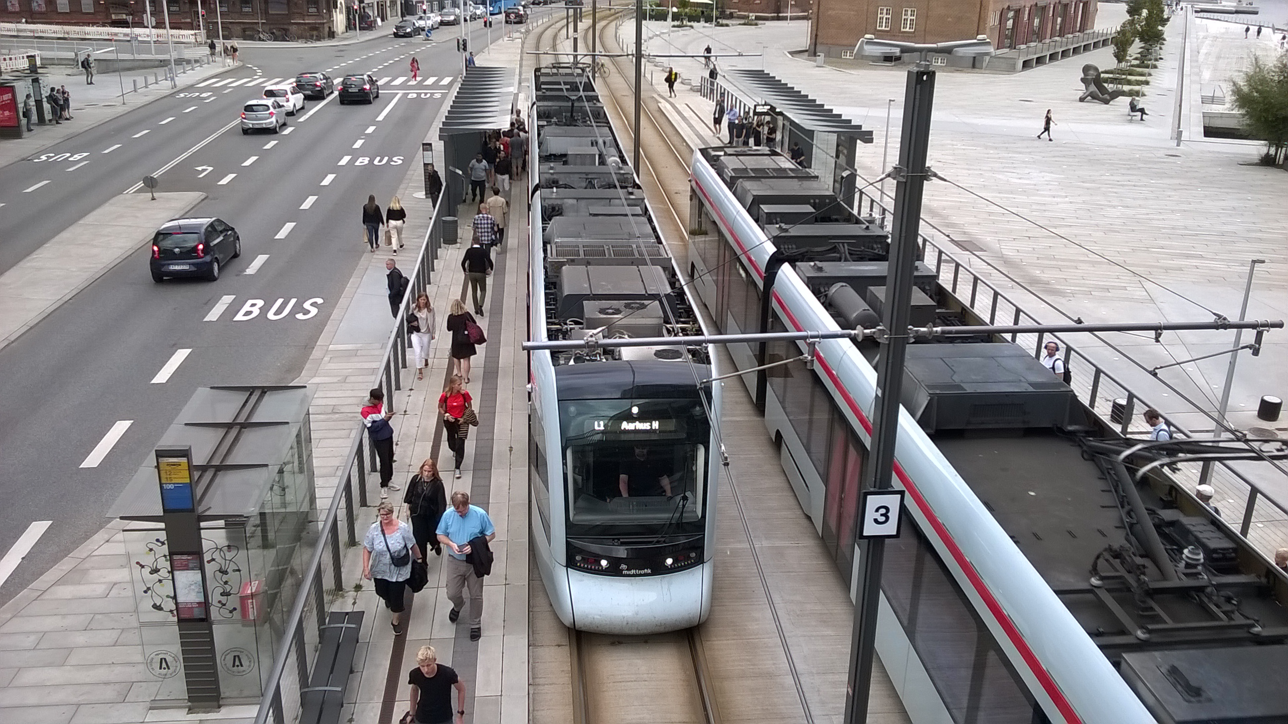 Aarhus Letbane, Dokk1 Station.